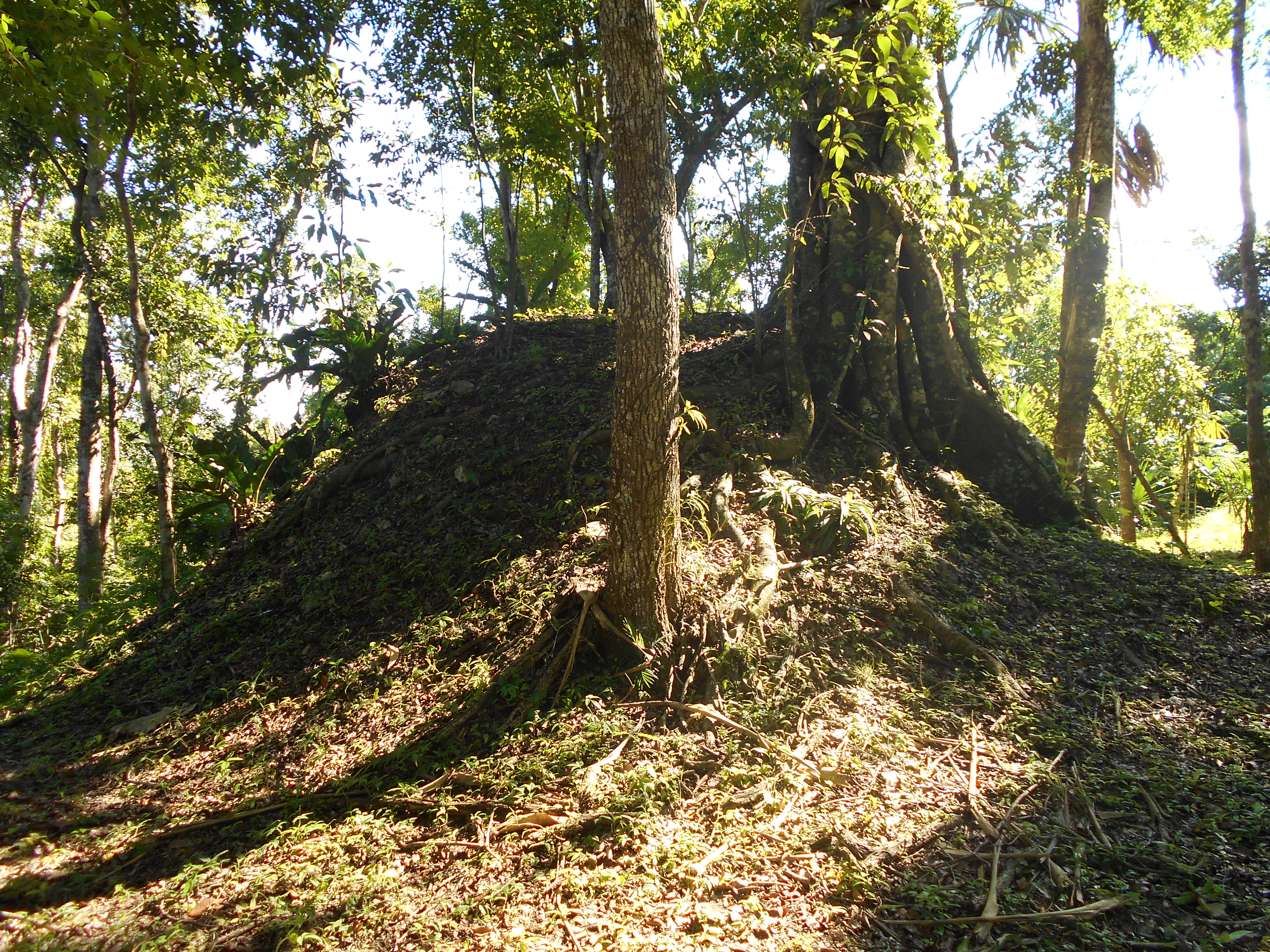 Classic period Maya ruins of Holtún in the Petén department of Guatemala.